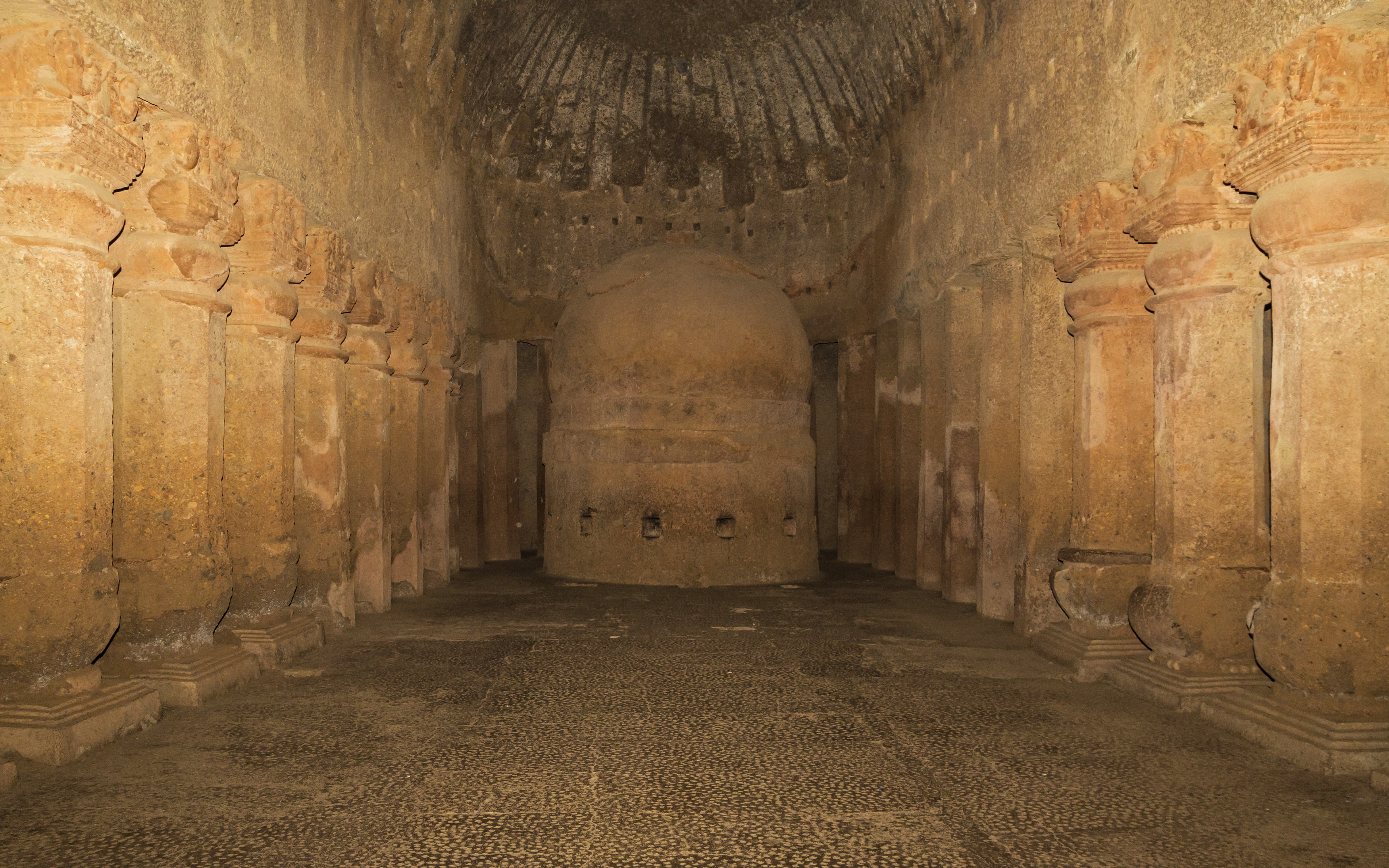 Kanheri Caves in Sanjay Gandhi National Park in Mumbai, India